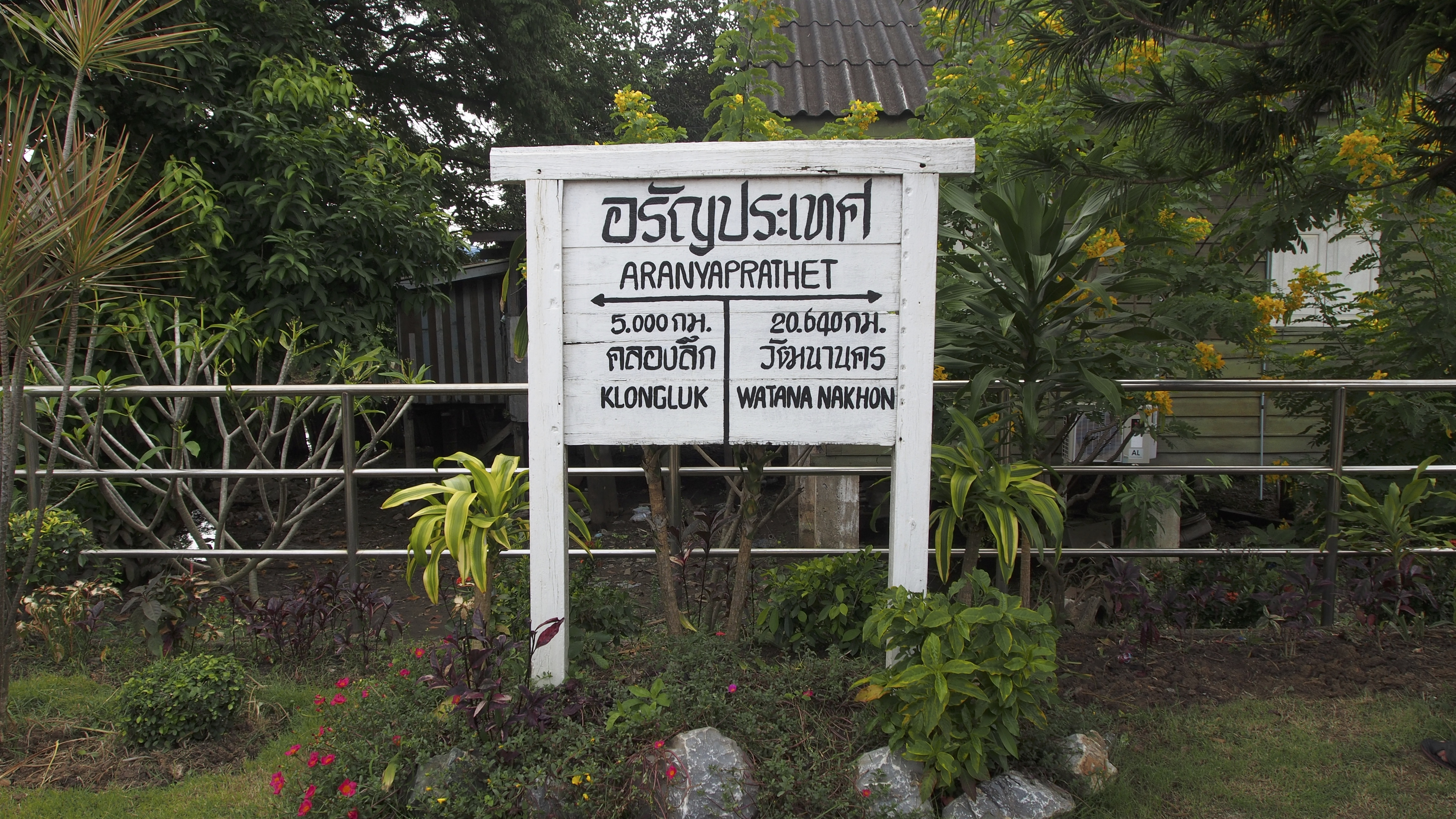 Aranyaprathet Railway Station This station is 10 minute tuk-tuk ride from the border and costs only $3.00. The train fare is 48baht or about $1.60.